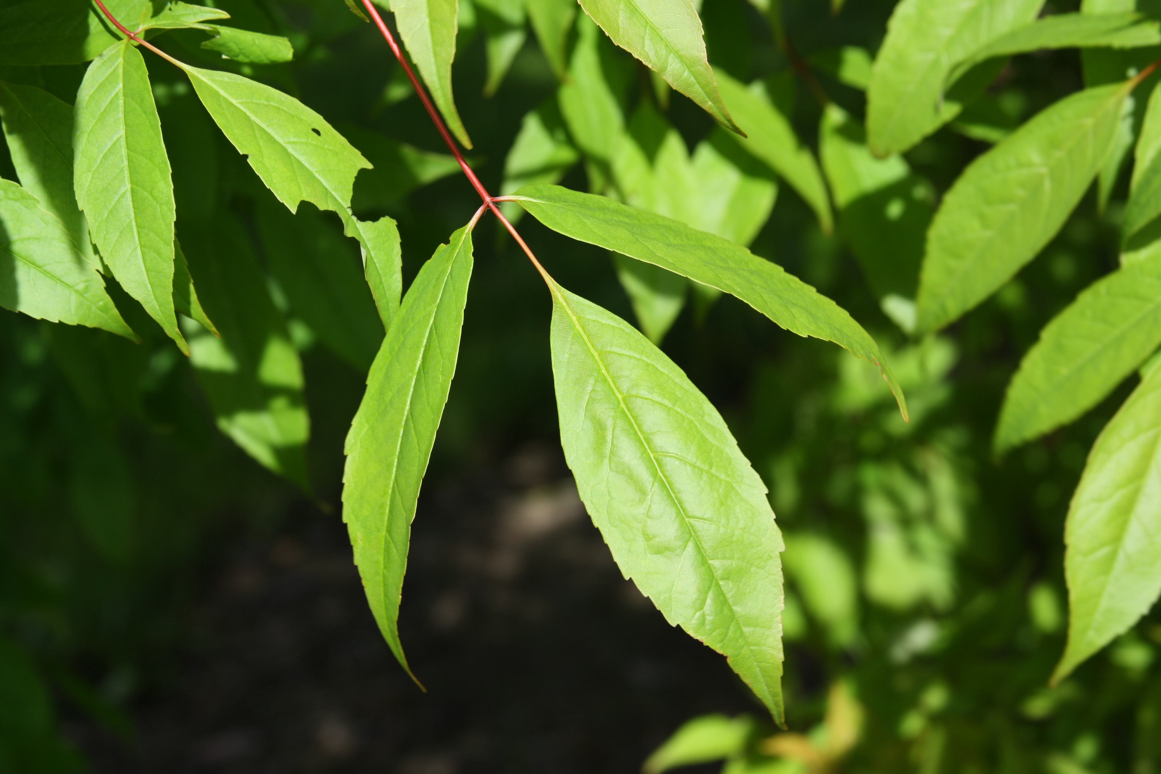 Leaf of the Manchurian Maple (Acer mandshuricum), Botanical garden of Tallinn, Estonia